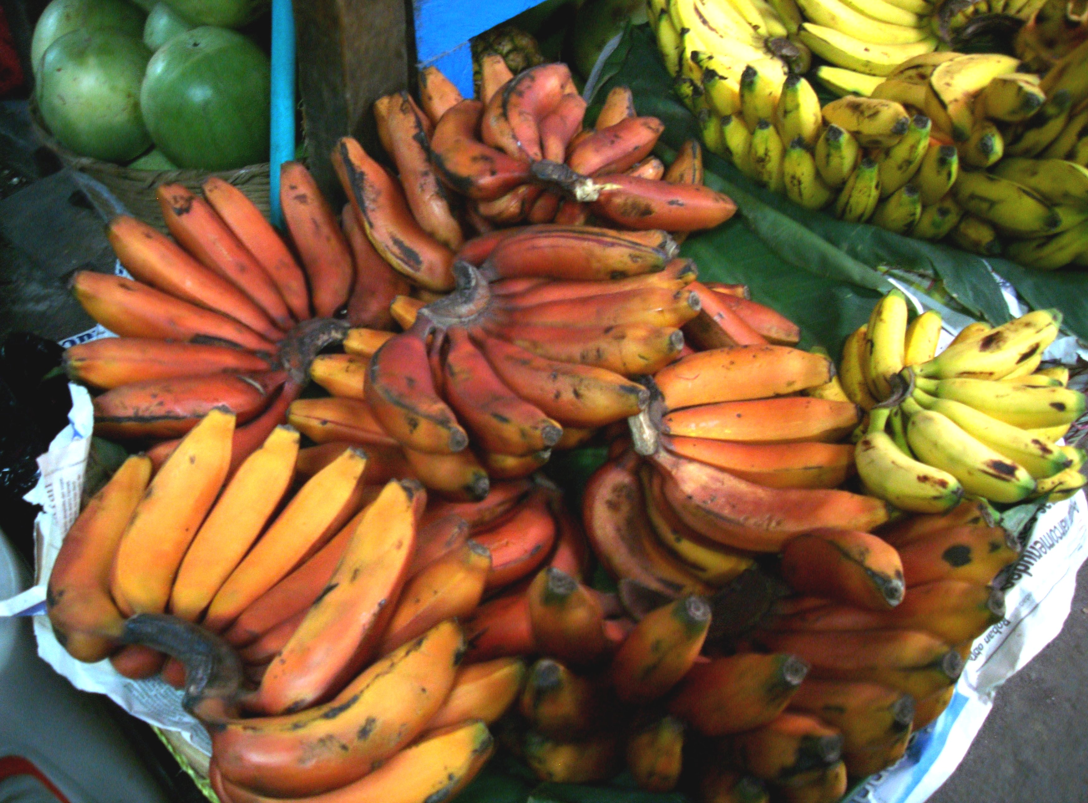 Red bananas, Chichicastenango, Guatemala